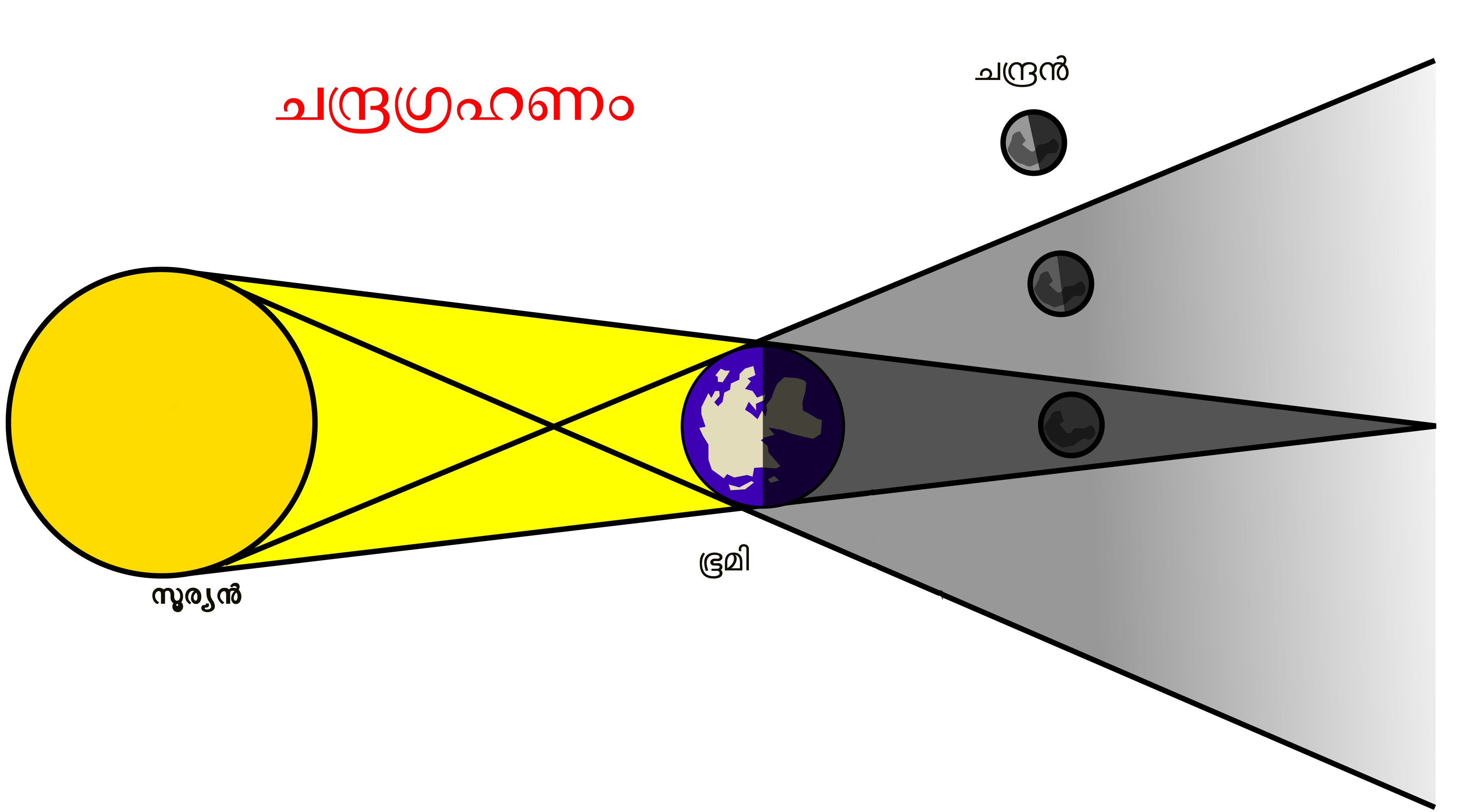 Lunar eclipse Graphic with Malayalam description landscape